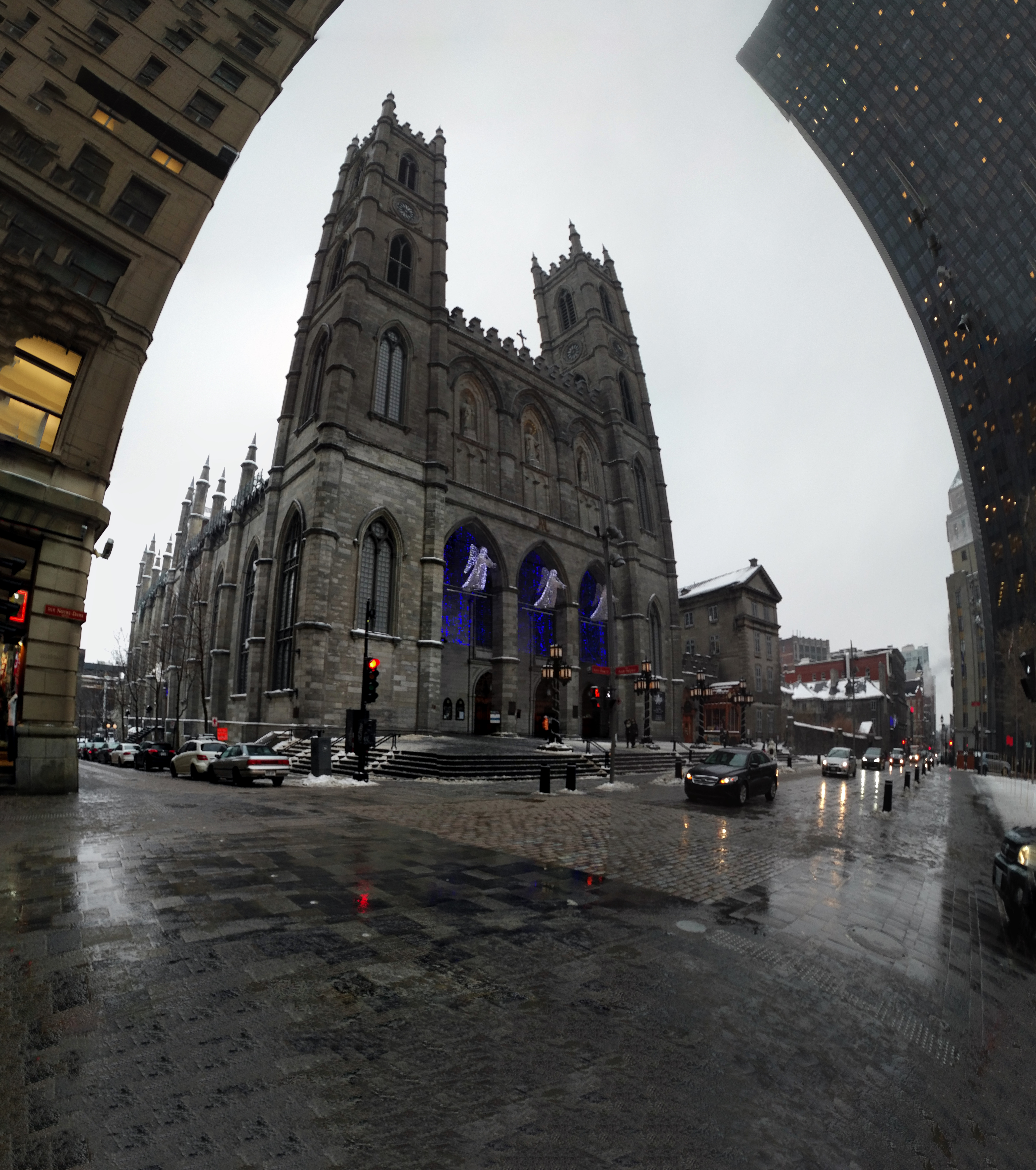 Notre-Dame de Montréal basilica, exterior.